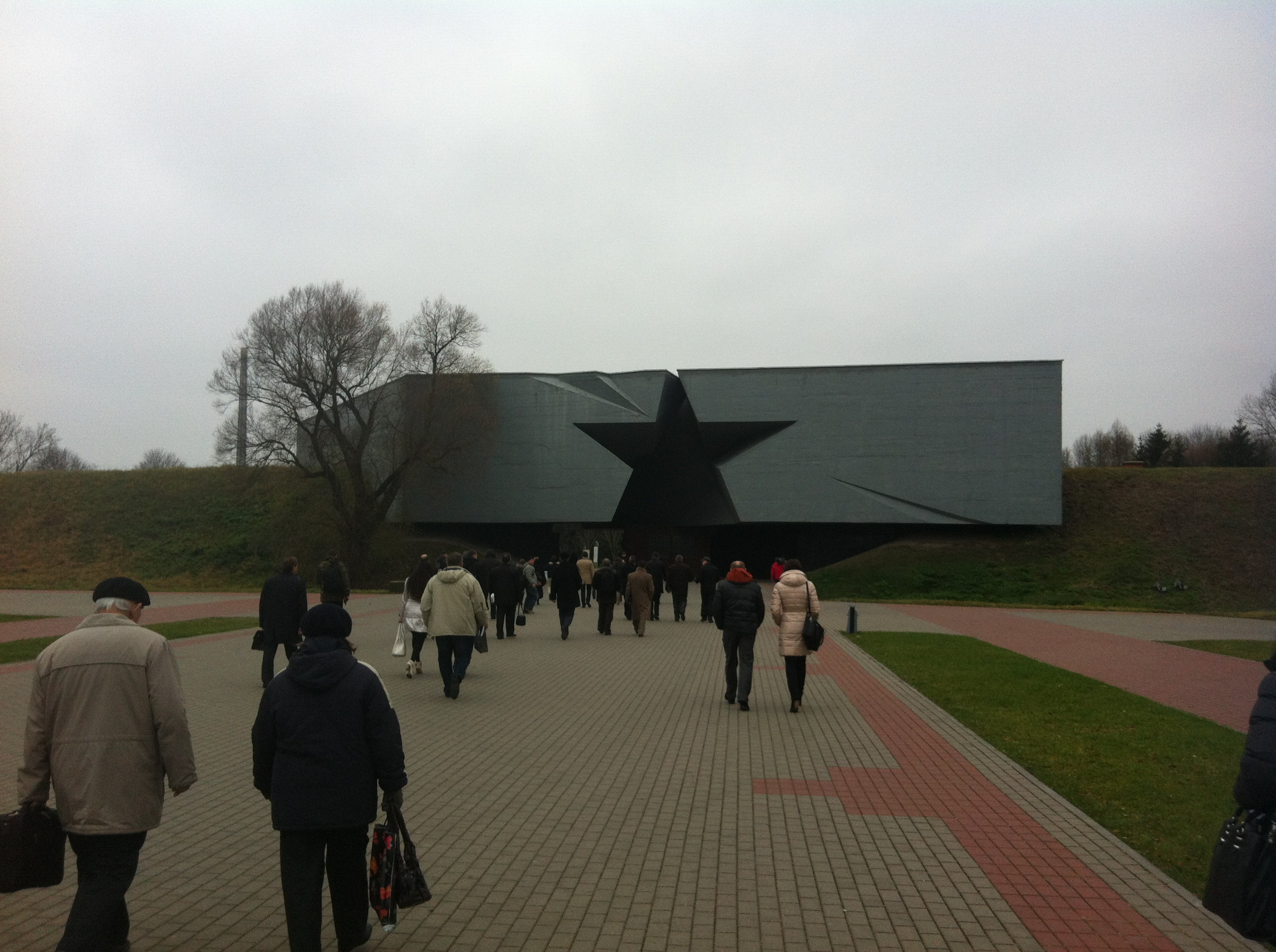 main entrance of the Fortress